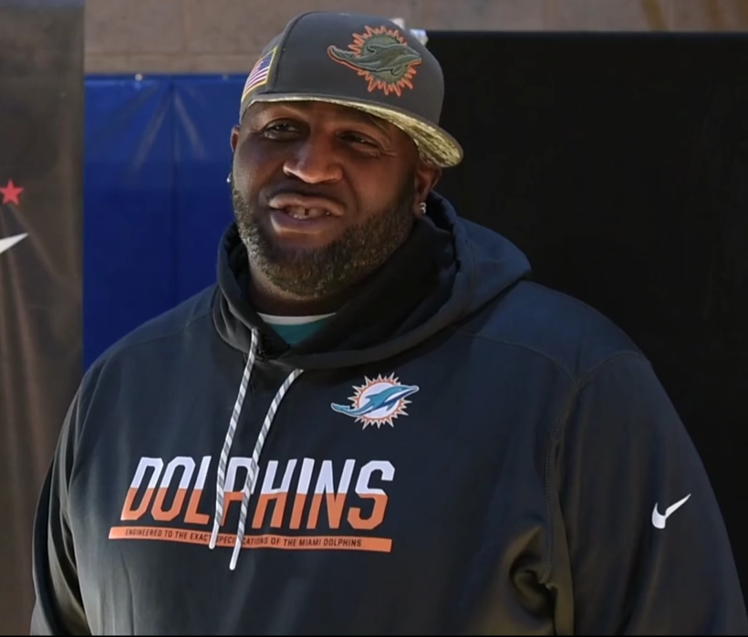 Miami Dolphins alumni and current cheerleaders stopped by the 386th Air Expeditionary Wing this week. Check out how they entertained and interacted with service members around base.